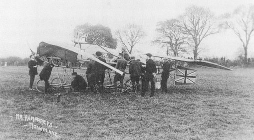 Humphreys Monoplane No. 2